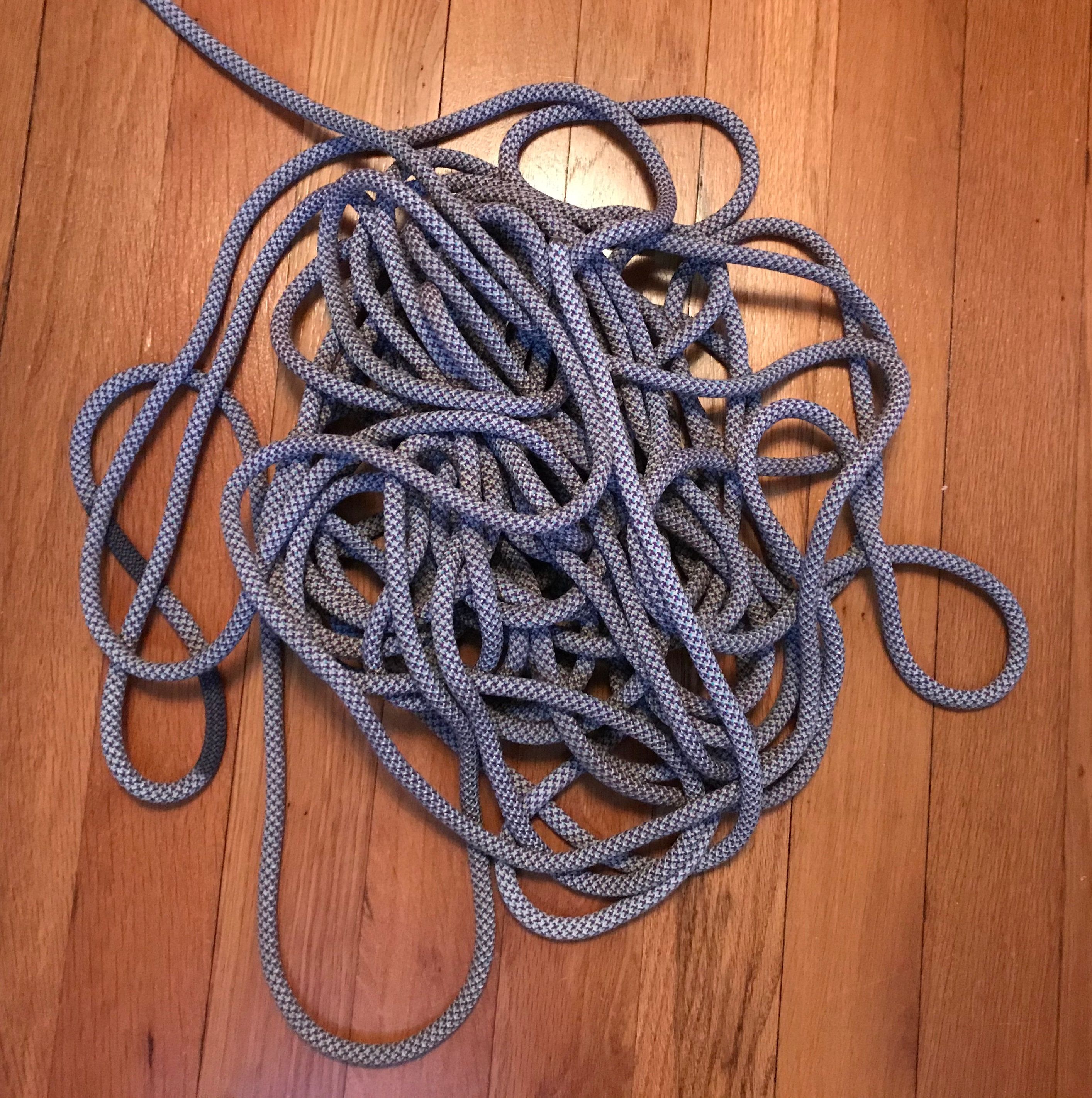 Mammut